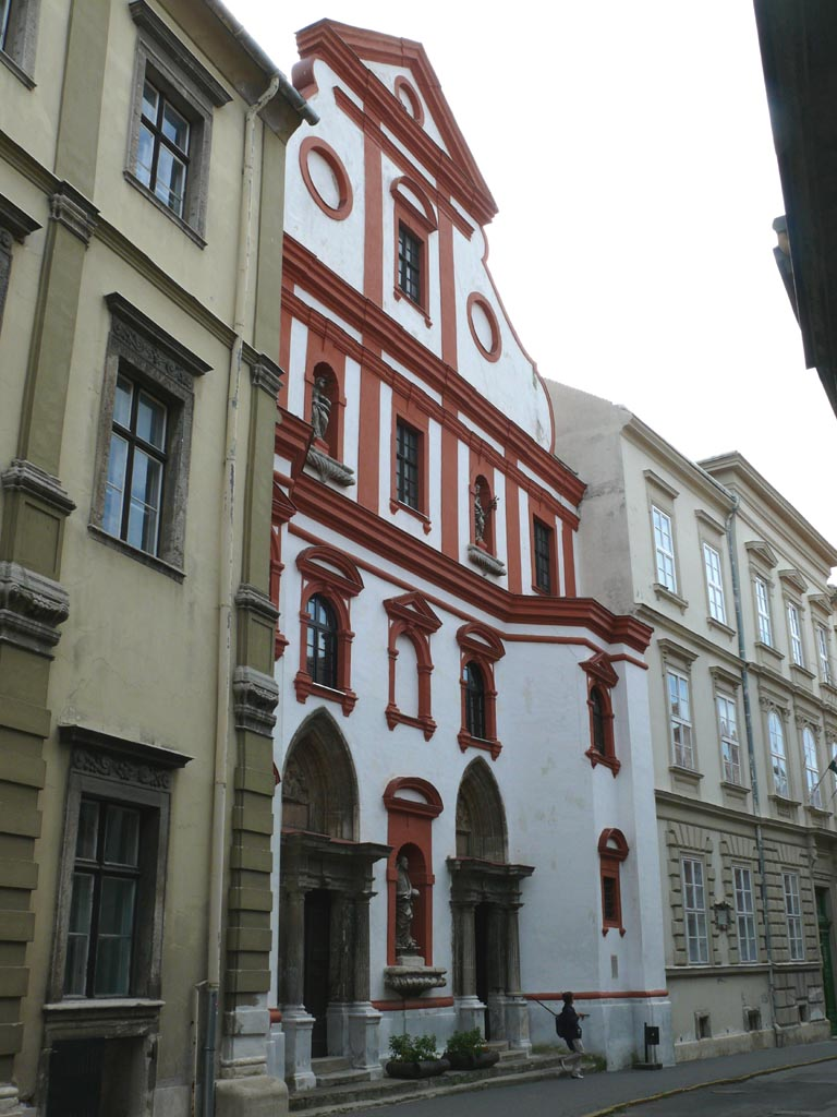 St Georg church